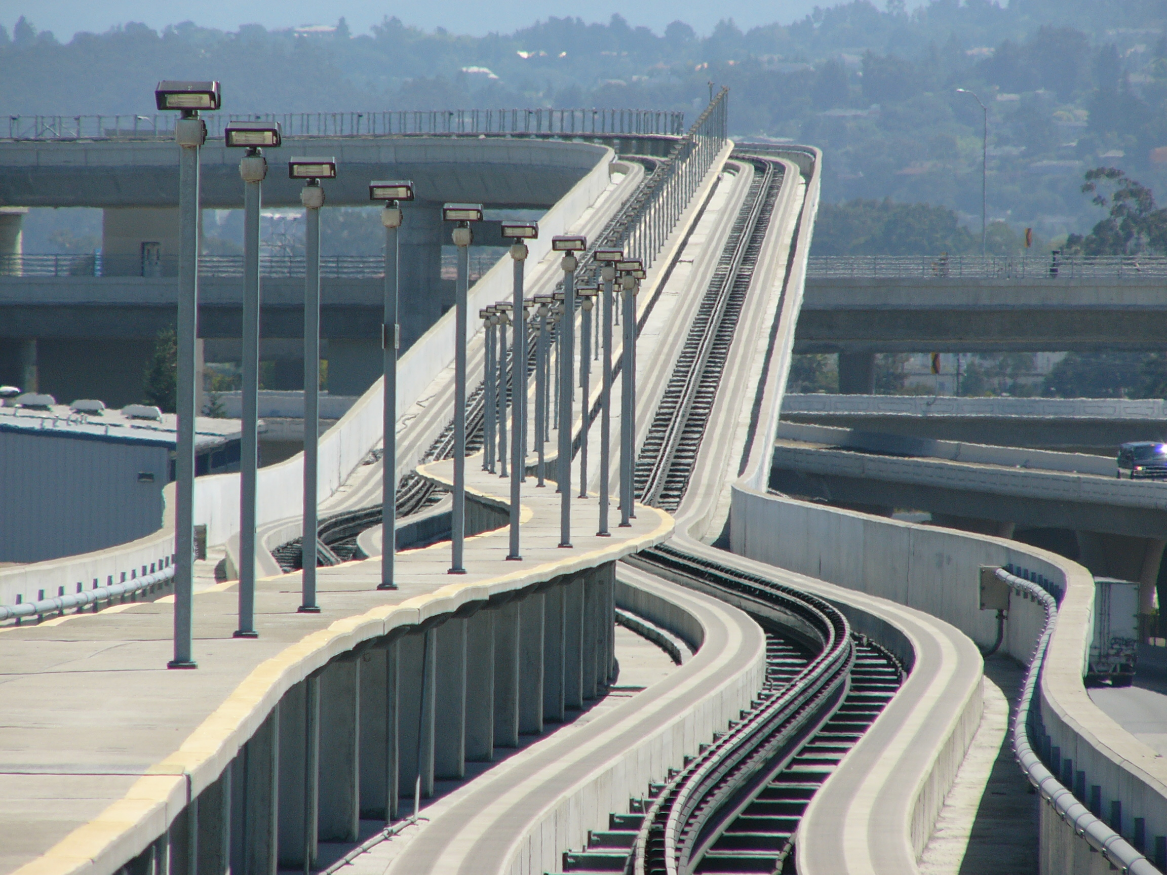 AirTrain tracks at San Francisco International Airport